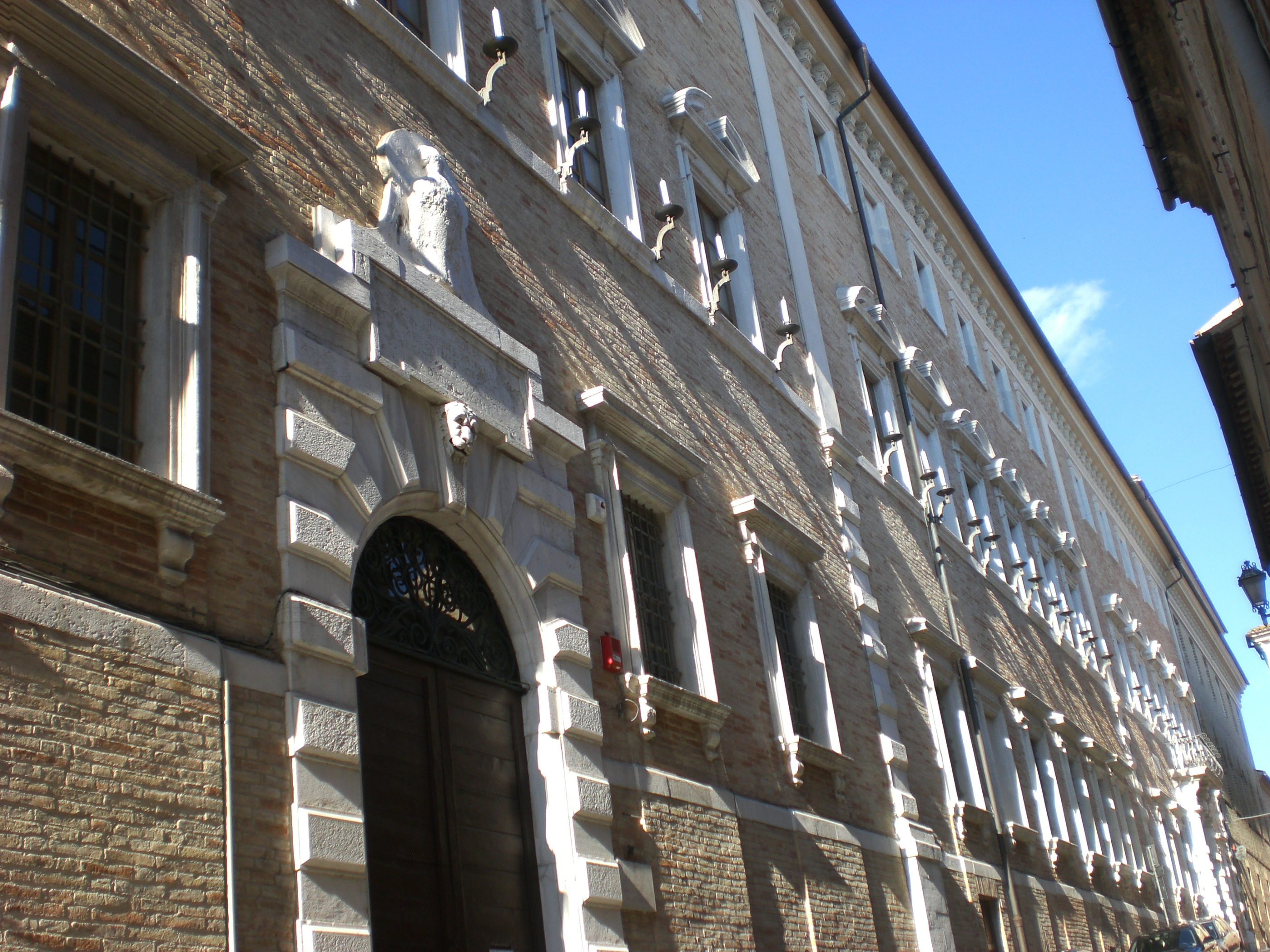 Osimo, Campana Palace